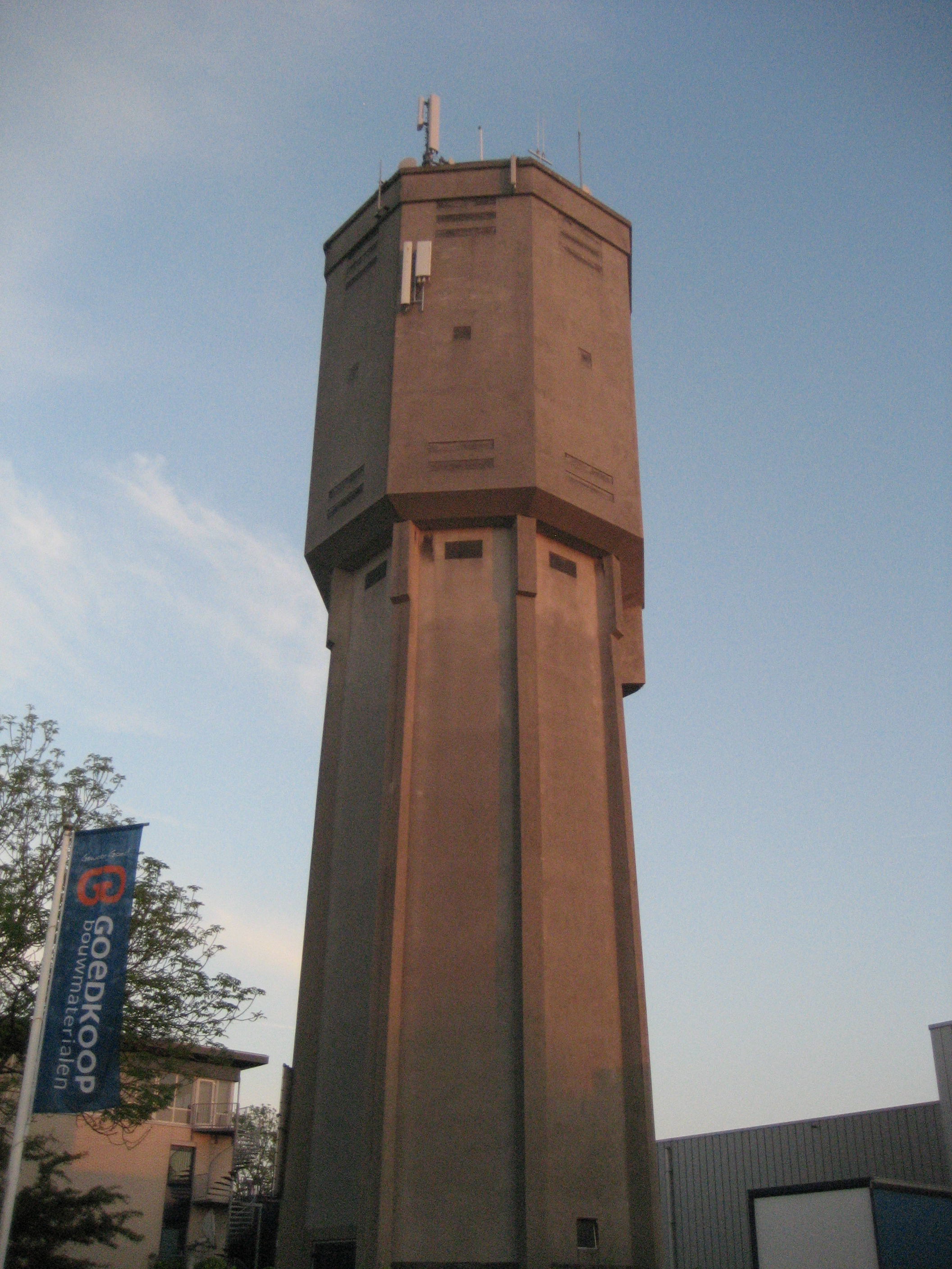 Water tower in Sassenheim (The Netherlands)